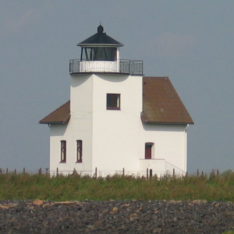 Julssand lighthouse on the shore of the Elbe river.